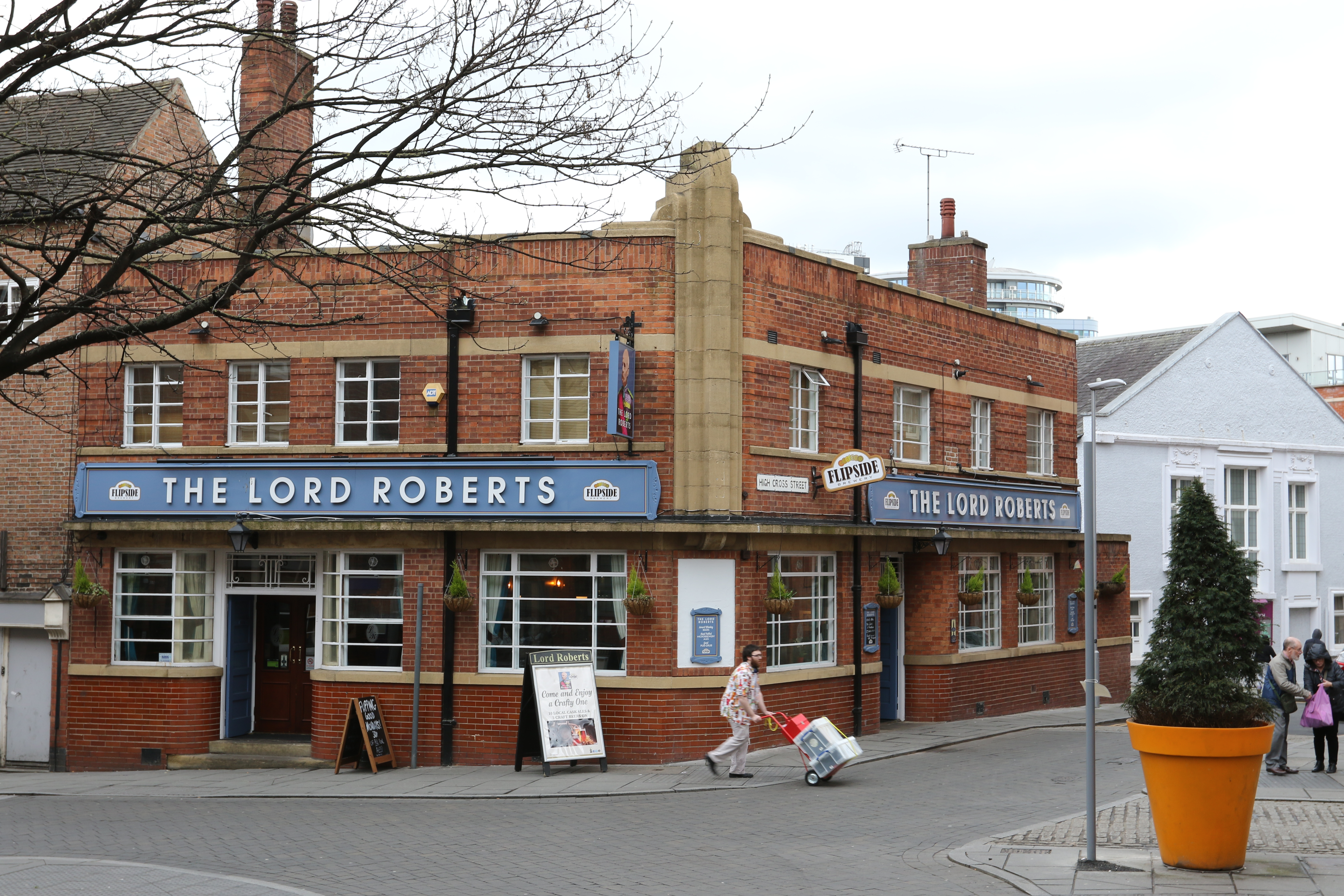 The Lord Roberts pub, Broad Street, Nottingham